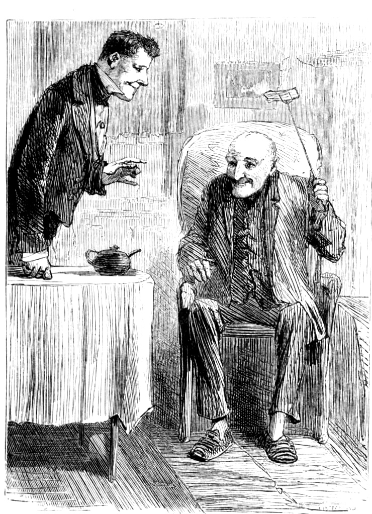 Great Expectations, Wemmick and his aged father, The Aged P., by Sol Eytinge, Jr.